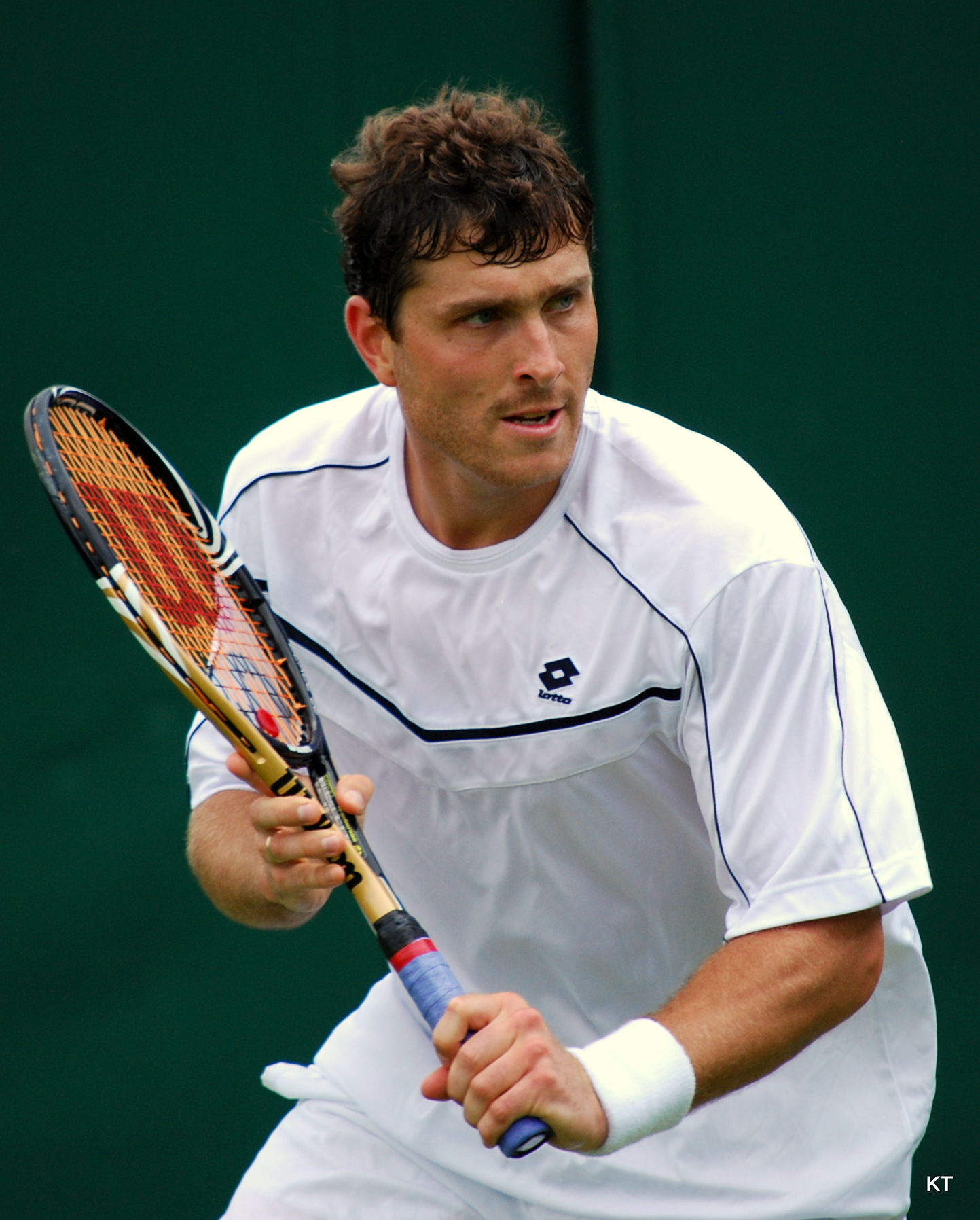 Michael Berrer during his first round match with Feliciano Lopez. Lopez won 6-4, 7-5, 6-3. Day 1 of Wimbledon 2011.